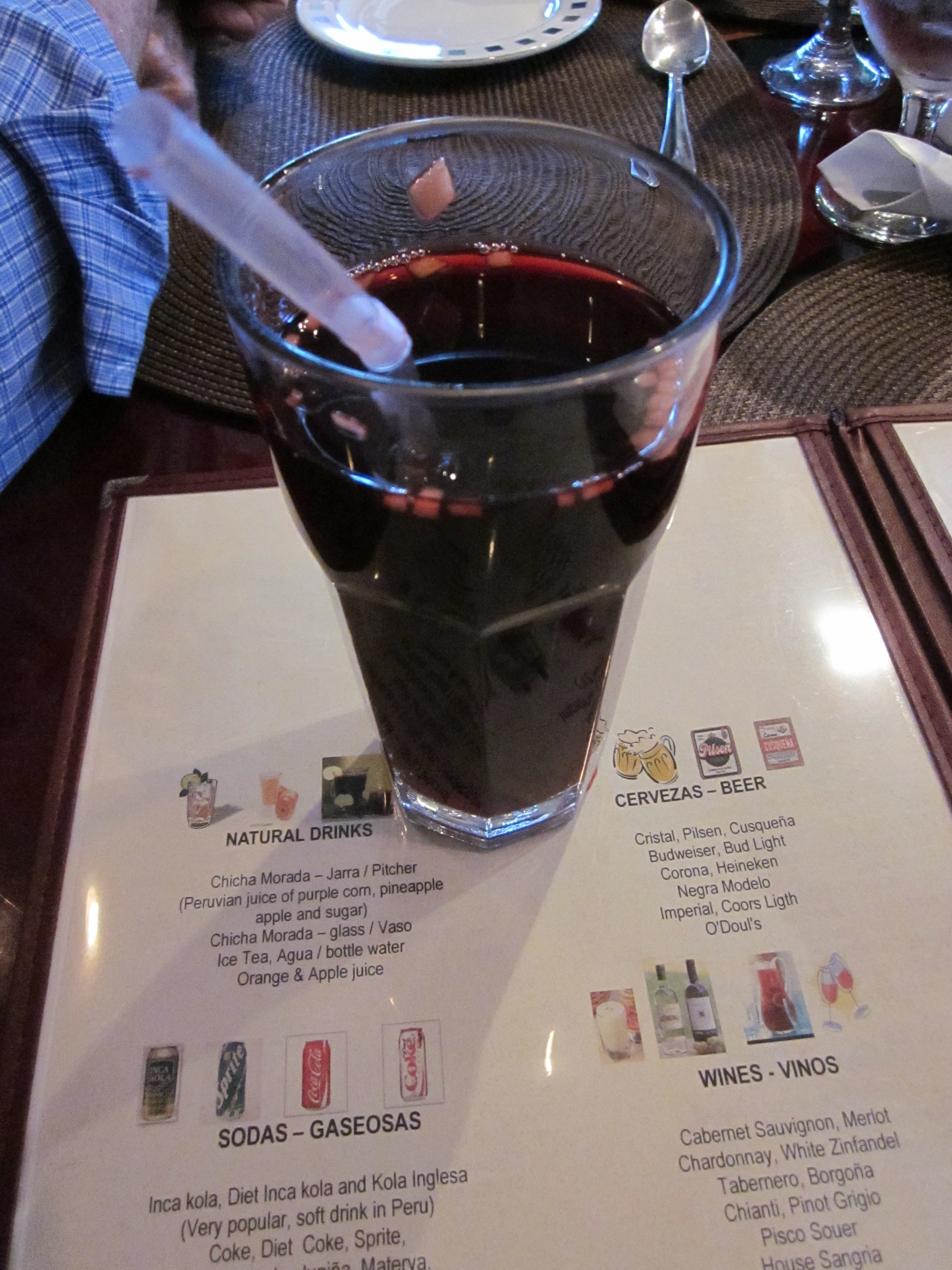 Boca Raton, Florida. Chicha Morada purple corn beverage at Peruvian restaurant